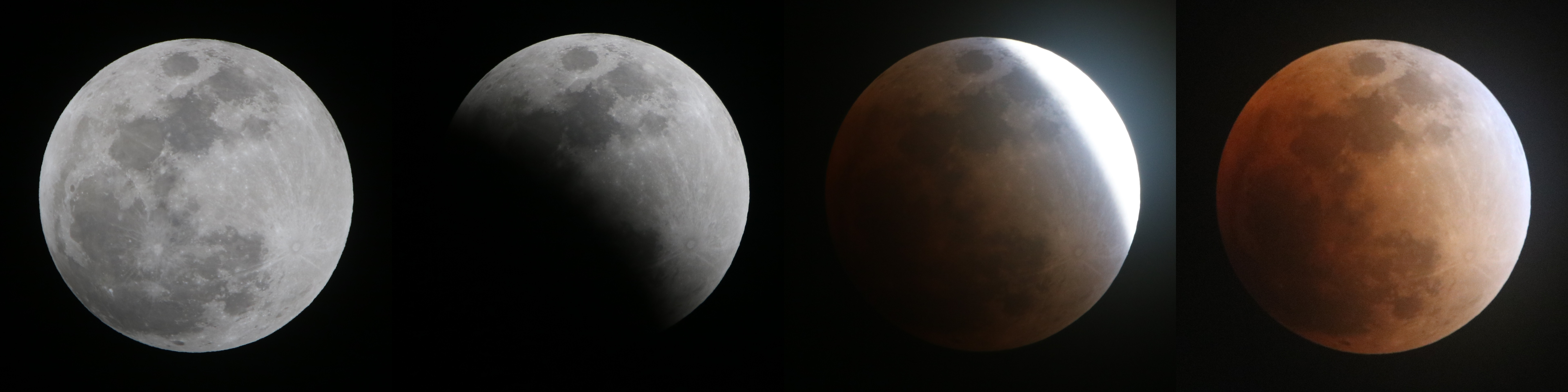 Montage of Lunar eclipse on January 31, 2018 in Aichi Prefcture, Japan. 1. Full moon (supermoon) 20:23 (JST) 2. Partial lunar eclipse 21:13 (JST) 3. Partial lunar eclipse 21:43 (JST) 4. Total lunar eclipse (blood moon) 21:55 (JST)